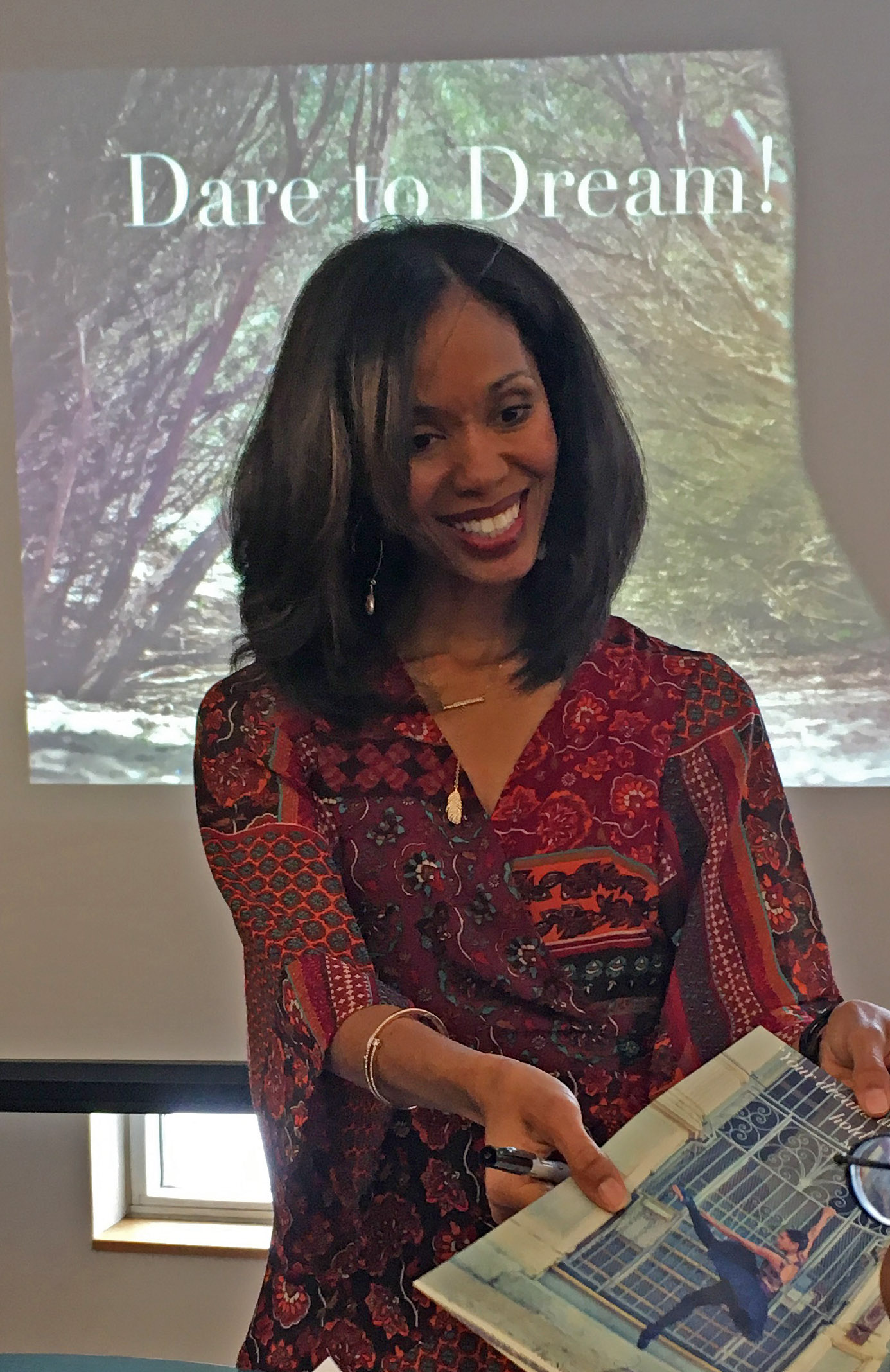 Former NYCB Ballerina, Aesha Ash, at the Rochester Central Library (NY), March 2018